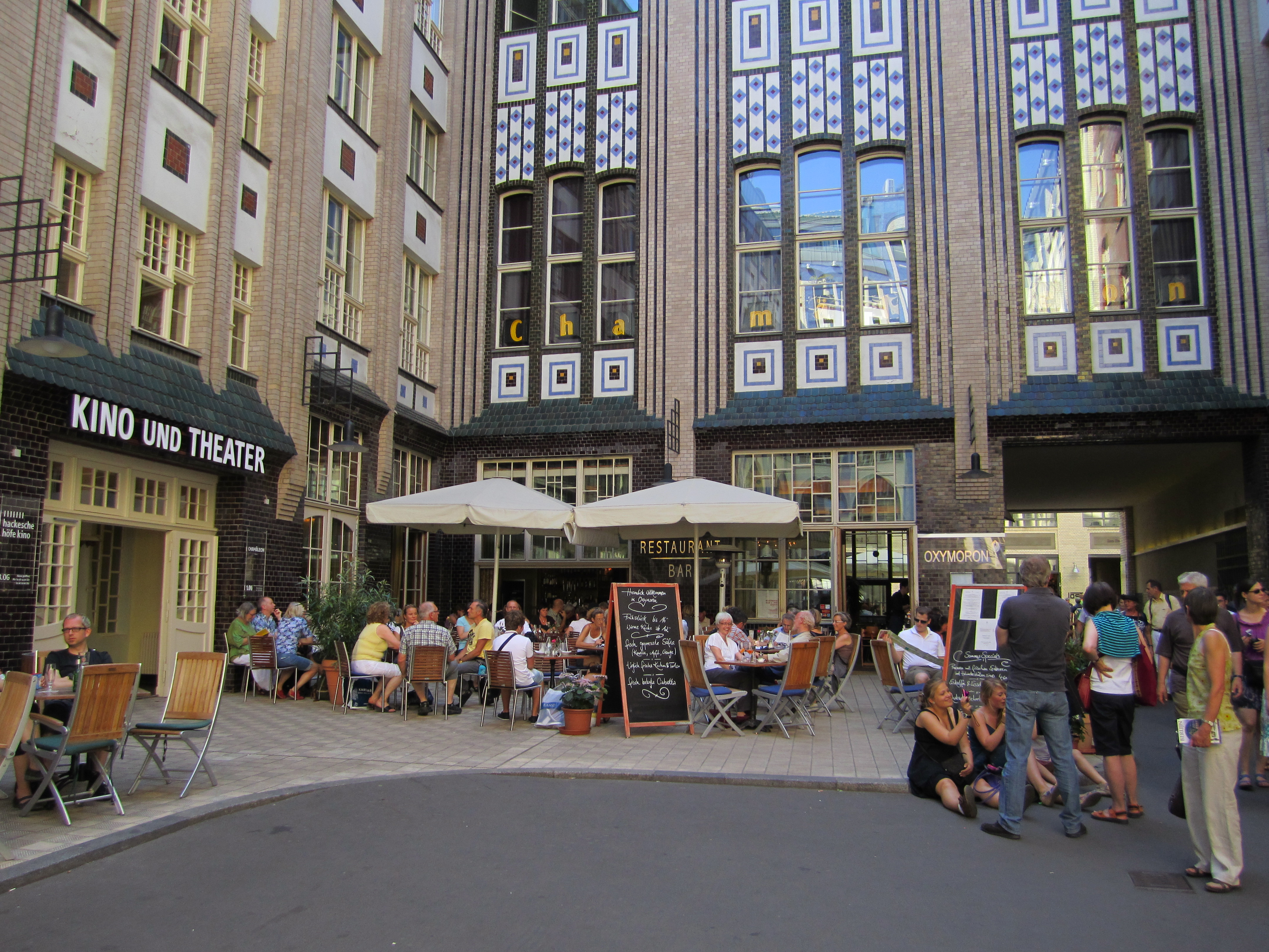 First cinema complex fully-equiped with Eclaircolor HDR